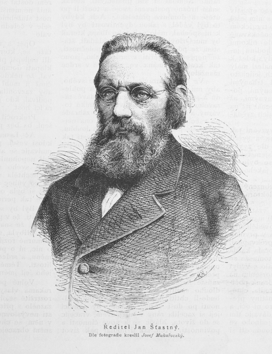 Portrait of Jan Evangelista Šťastný (1824-1913), Czech high-school teacher and author of textbooks